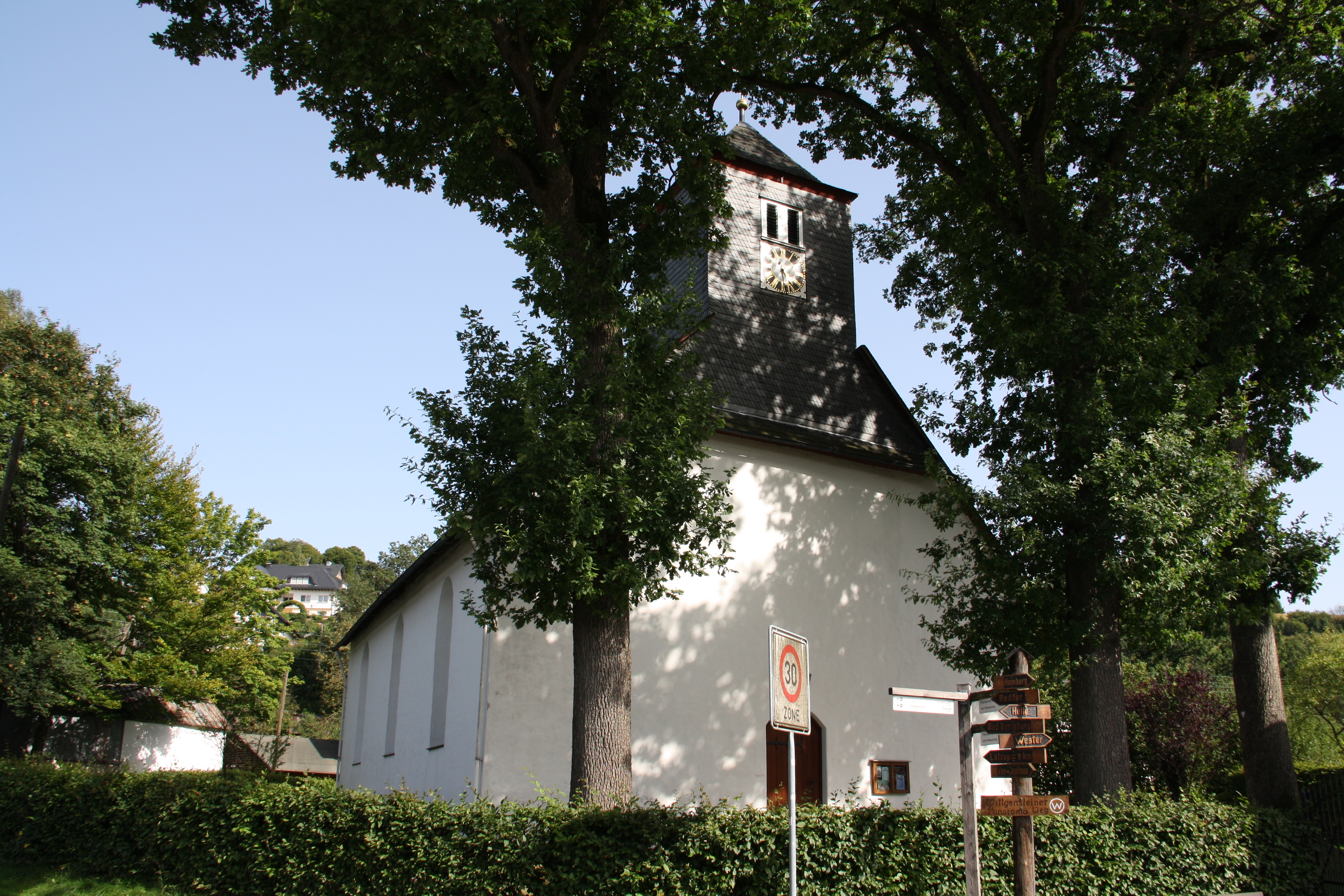 This is a photograph of an architectural monument., no. 072